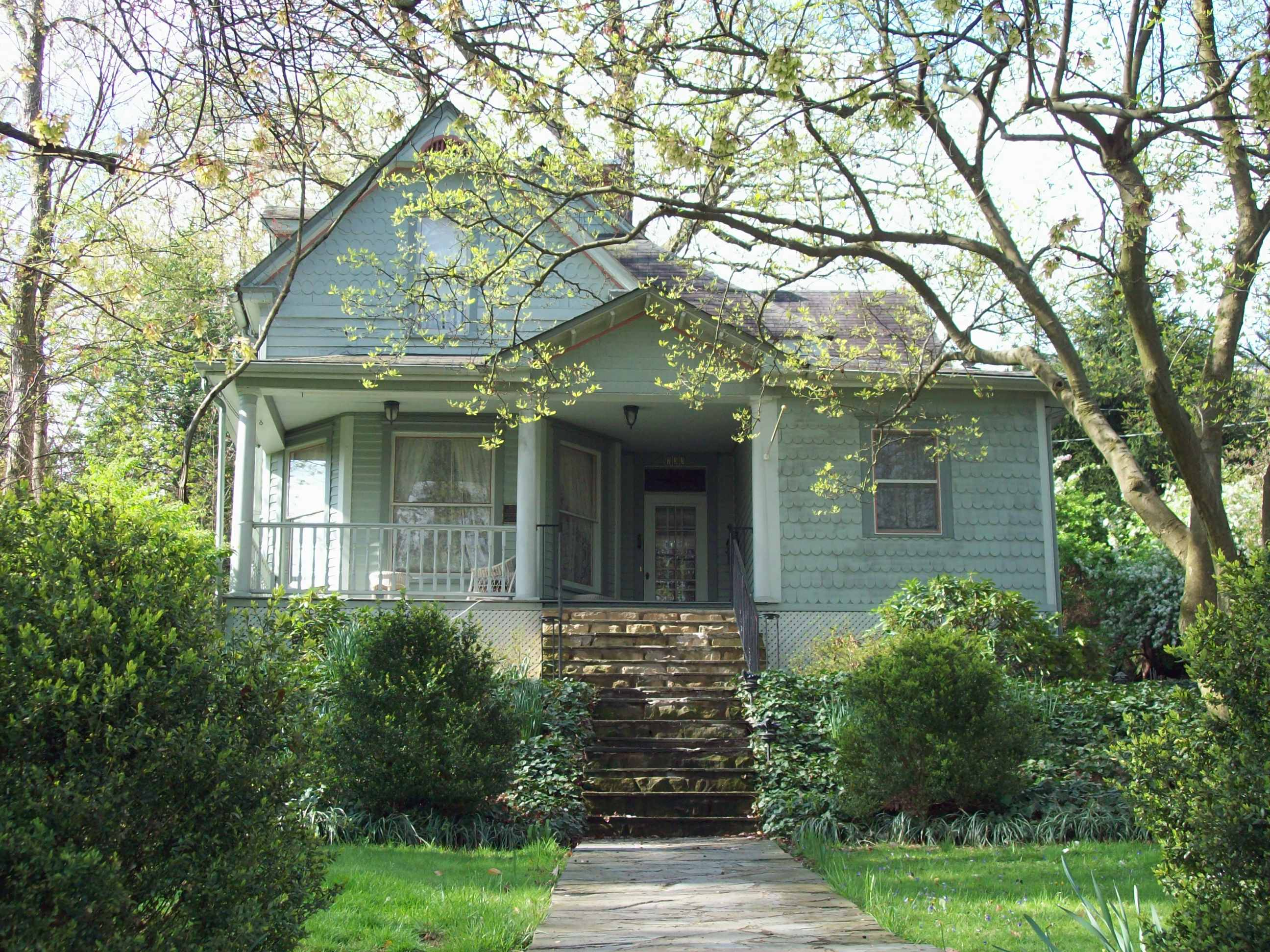 Front of Bird Haven, located at 733 Myrtle Road in Charleston, West Virginia, United States. Built in 1895, the house is listed on the National Register of Historic Places.